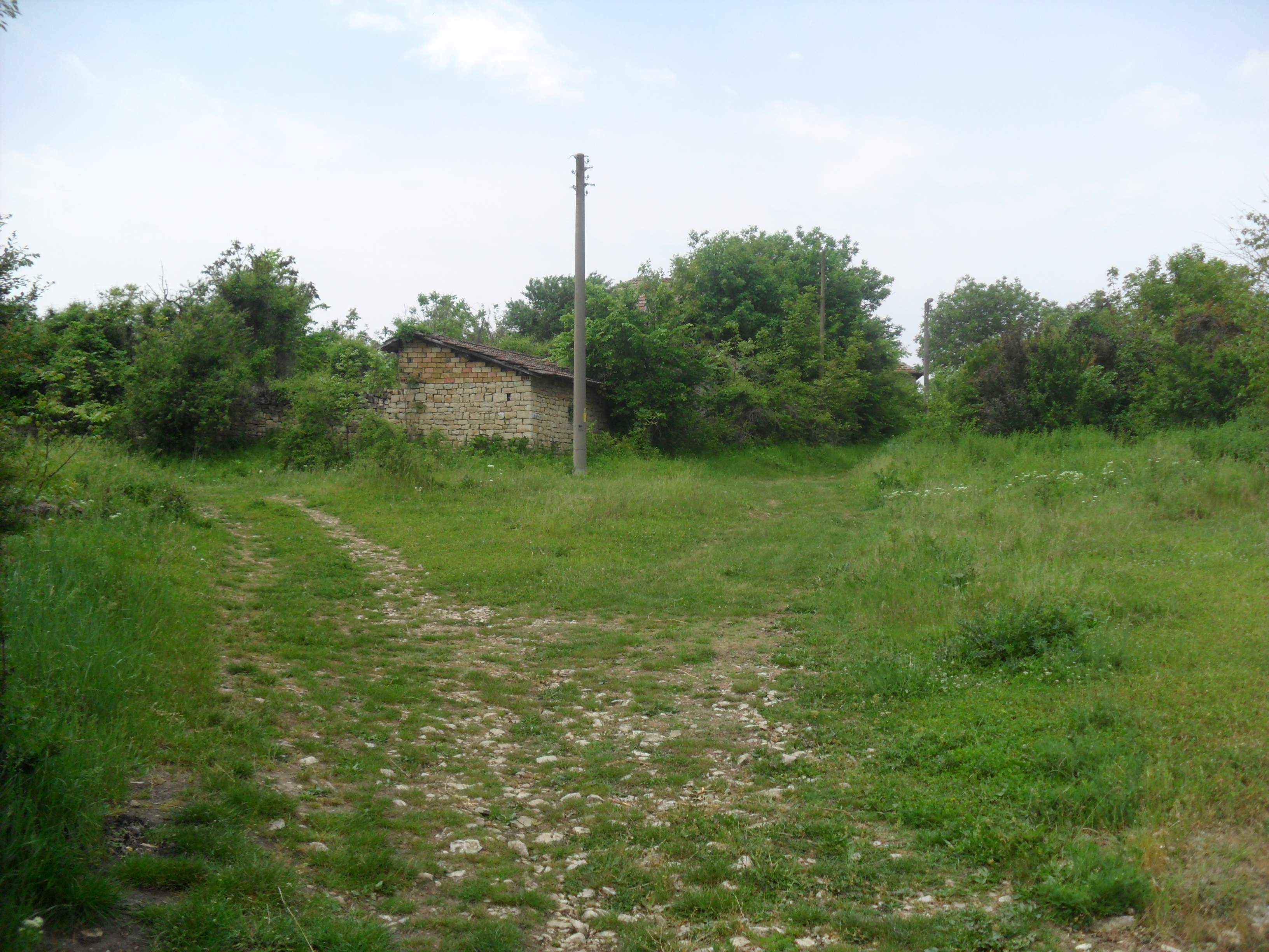 The first houses from the village were in this area